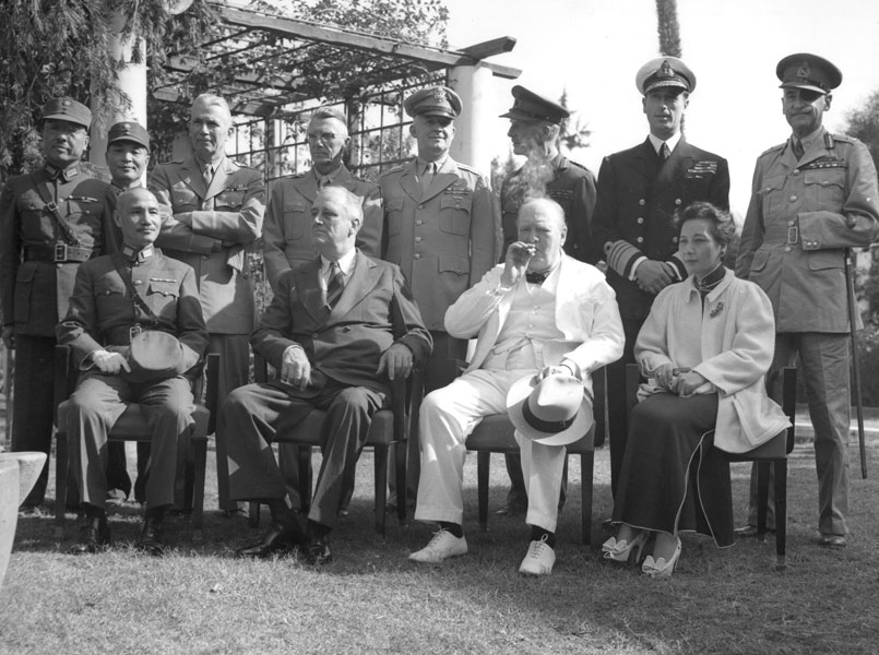 This photo by Jim Hudson was taken during the Cairo Conference (Nov. 22-26, 1943) between China, UK and USA. From left to right: Generalissamo Chiang Kai Shek, US President Franklin Delano Roosevelt, British Prime Minister Winston Churchill and Madame Chiang Kai Shek served as interpreter. Back row, Chinese Generals Chang Chen and Ling Wei; American Generals Somervell, Stilwell and Arnold; and senior British officers, Field Marshal Sir John Dill, Admiral Lord Louis Mountbatten, and Major General Carton de Wiart, VC.